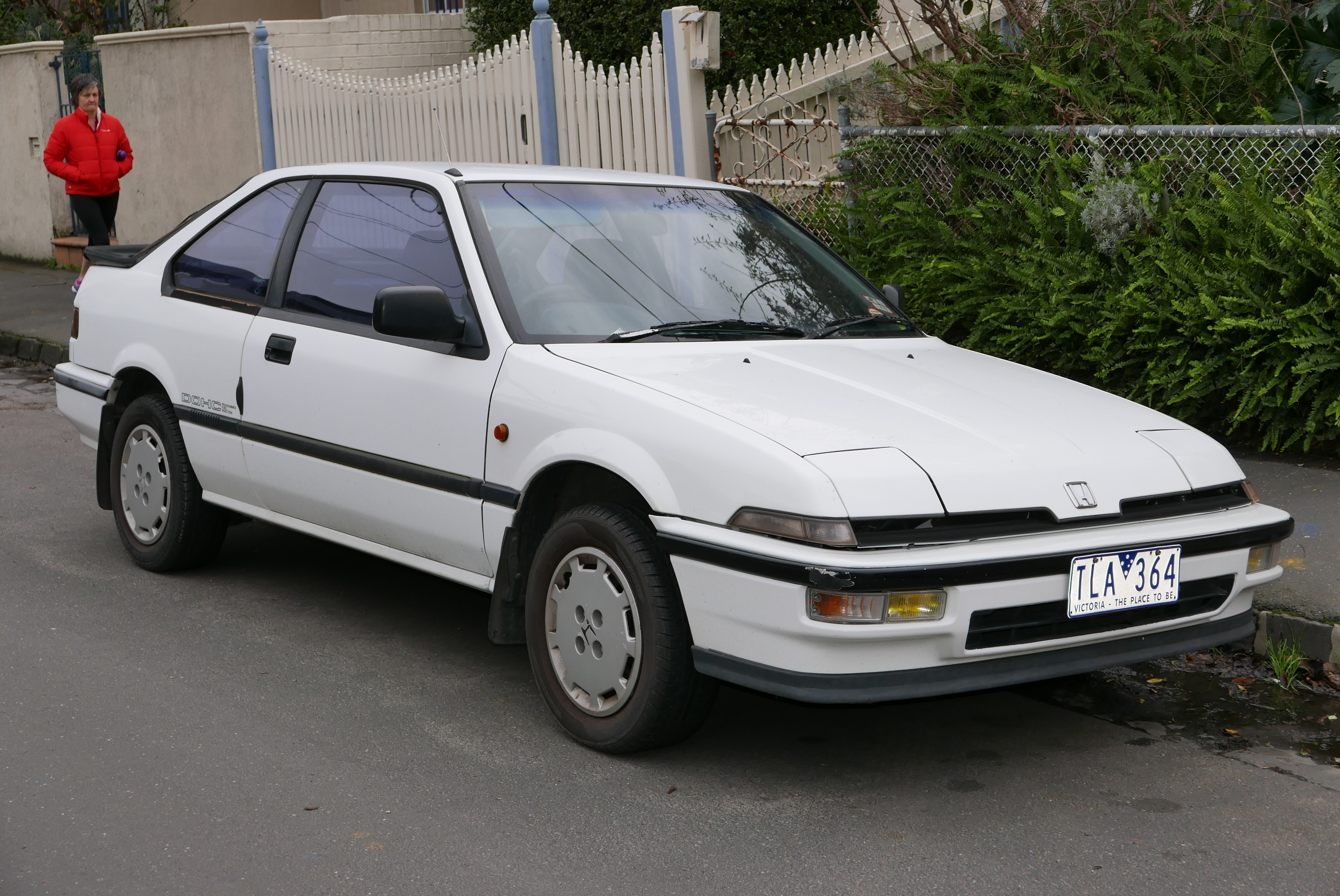 1989 Honda Integra (DA3) SX16 3-door hatchback. Photographed in Brunswick East, Victoria, Australia. Vehicle registration enquiry results Jurisdiction Victoria Registration TLA364 Chassis code Not available Engine code D16A31401588 Compliance date Not available Year of manufacture 1989